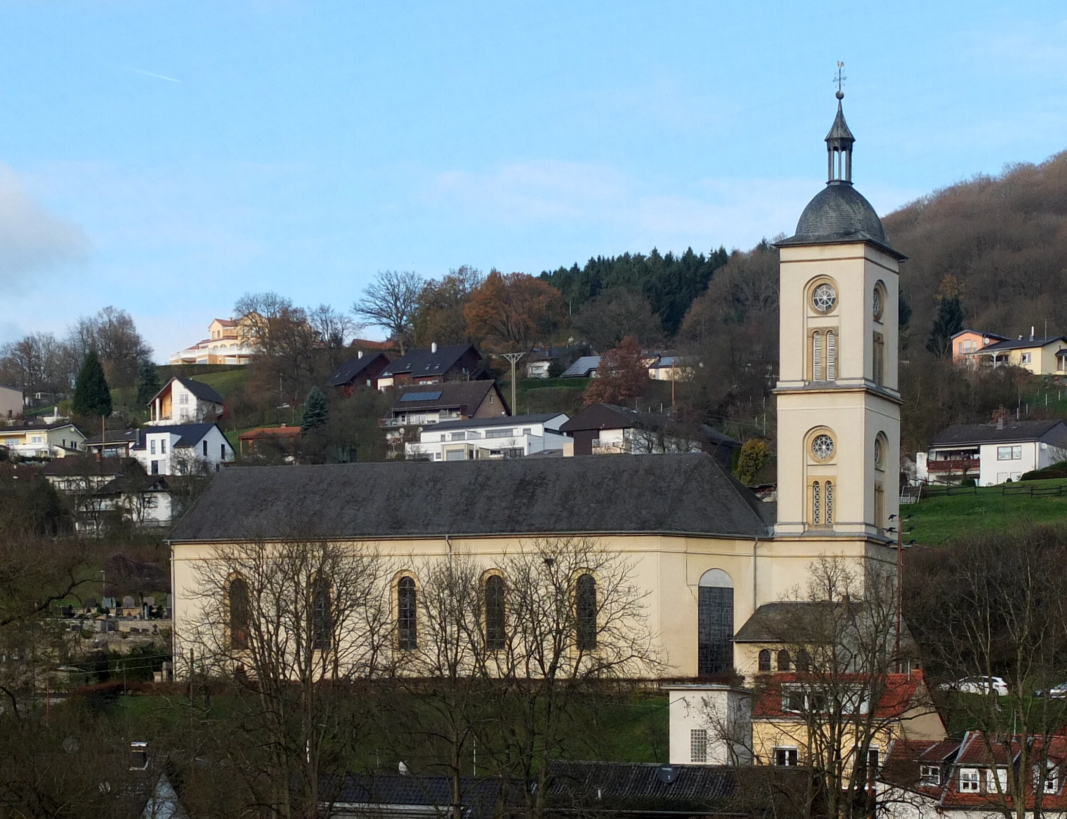 Parish church St. Michael, Bollendorf (Eifel), Gemany, view S. This is a photograph of an architectural monument.It is on the list of cultural monuments of Bollendorf